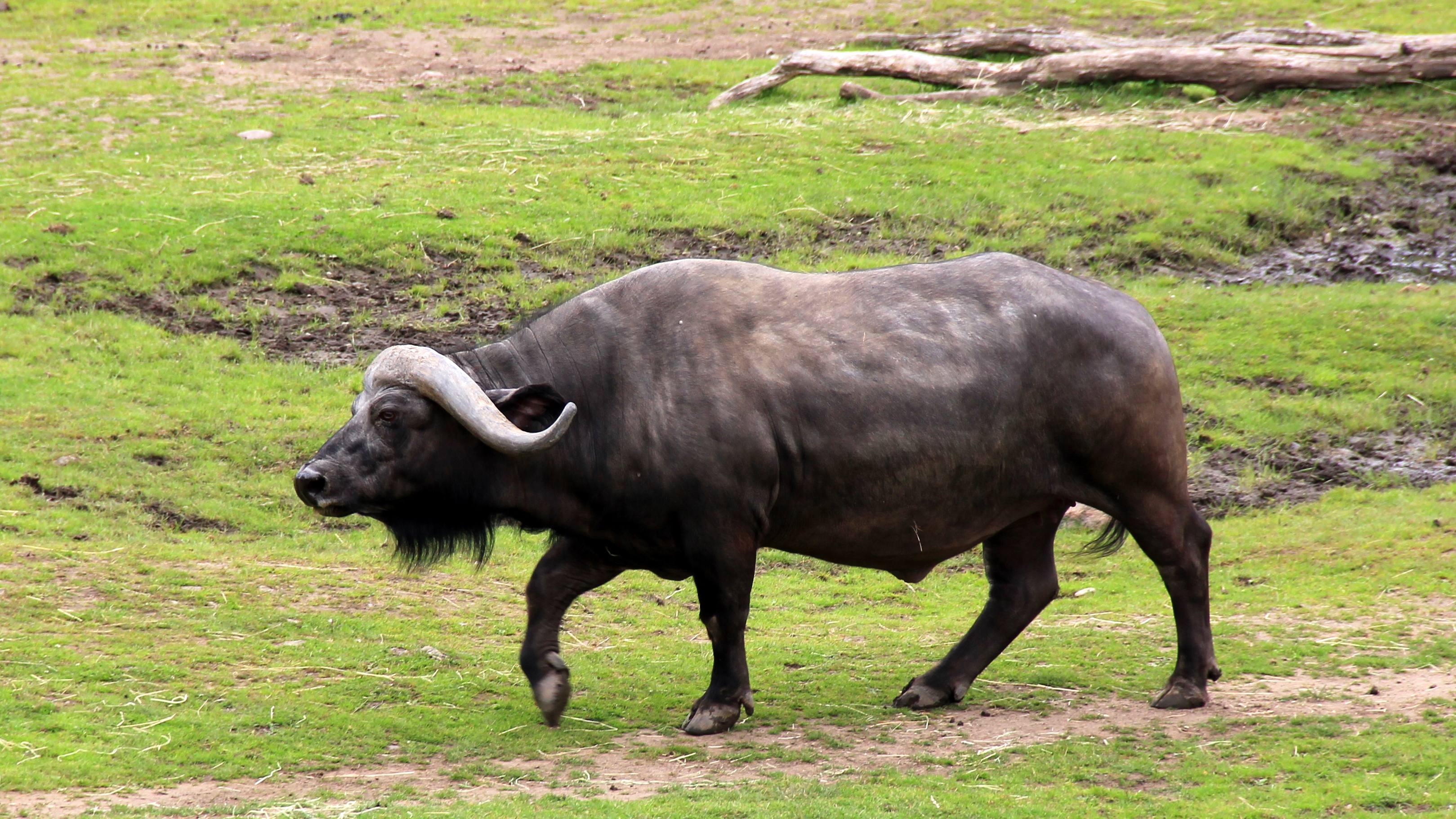 African Buffalo Syncerus caffer, at Borås Djurpark